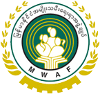 Myanmar Women's Affairs Federation sealUnknown မြန်မာနိုင်ငံအမျိုးသမီးရေးရာအဖွဲ့ချုပ် တံဆိပ်